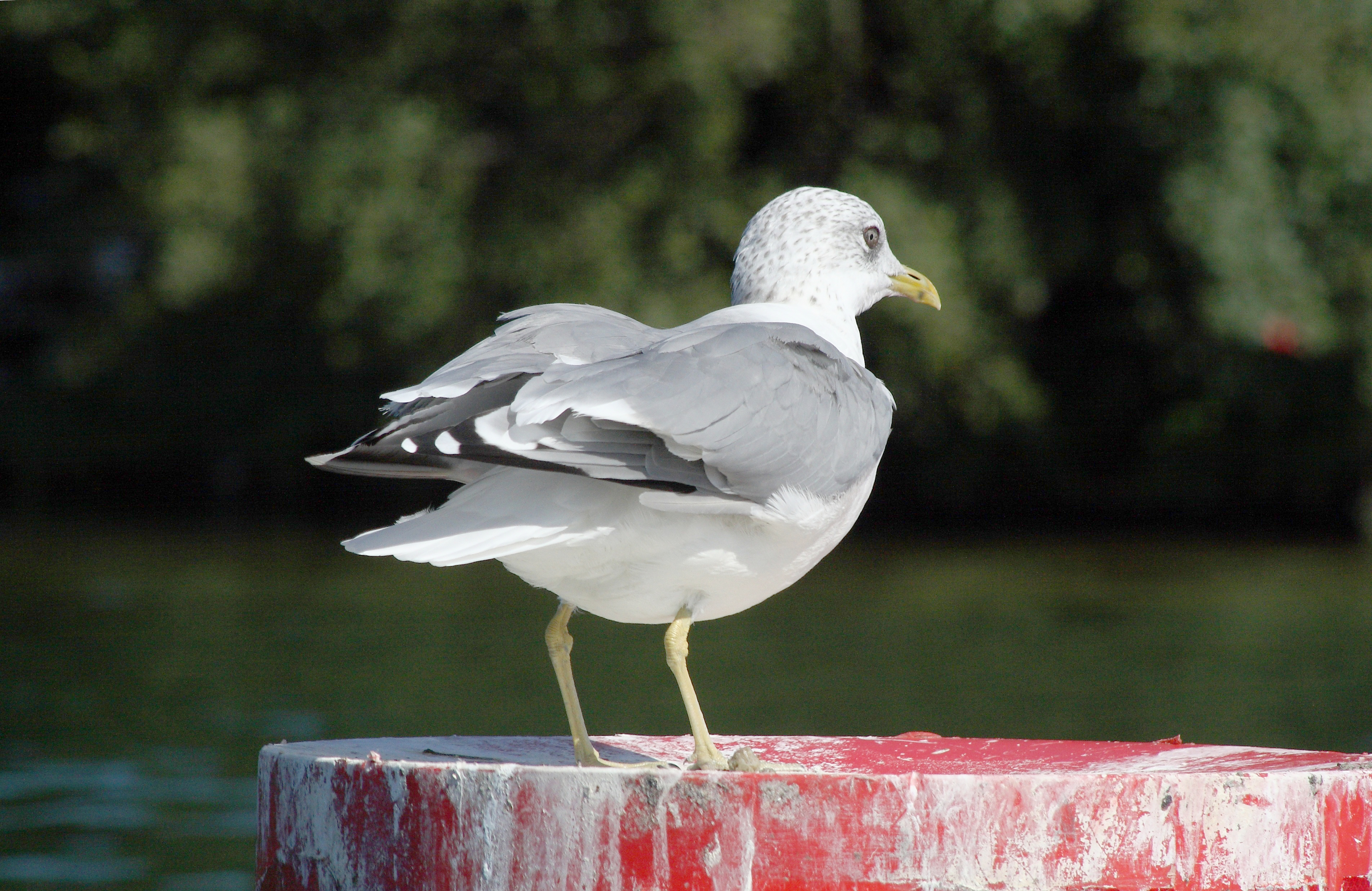 Common Gull Larus canus canus at the White-Augustów Lake, Poland